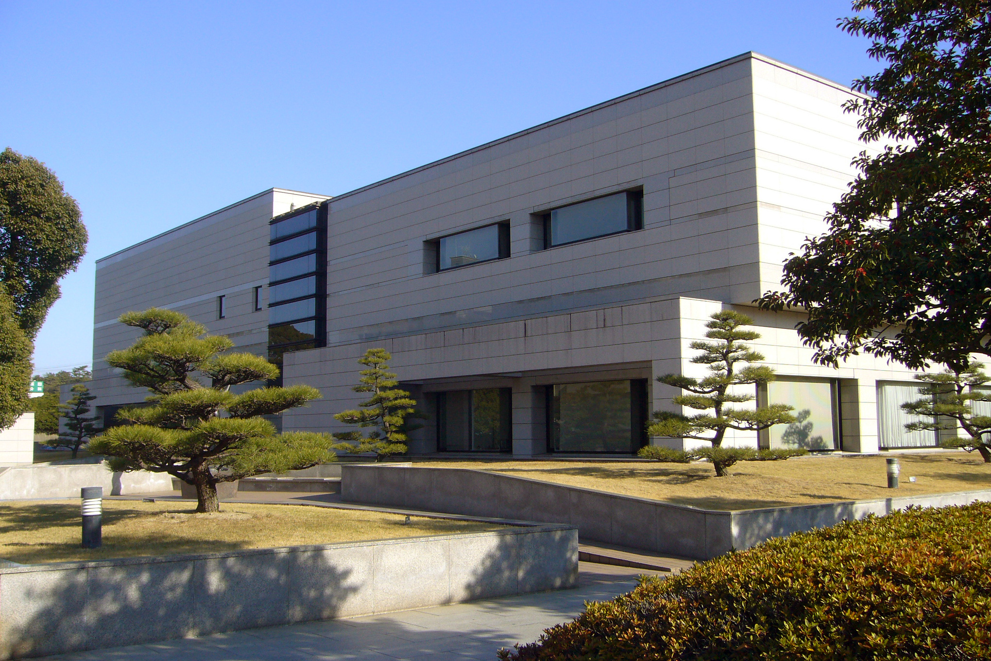 Fukuyama Museum of Art in Fukuyama, Hiroshima prefecture, Japan